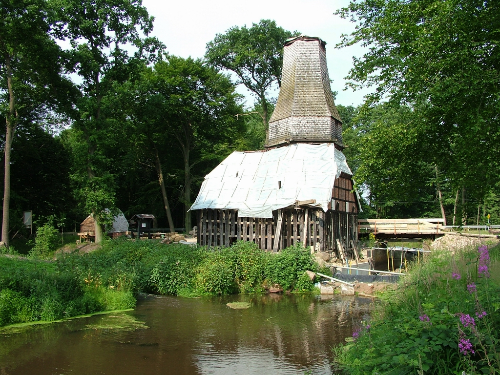 The combined windmill and watermill in Hueven, Lower Saxony, Germany, during its restoration in July 2005